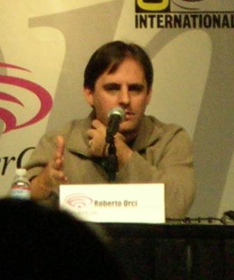 Roberto Orci at WonderCon 2009. Derivate work of Iamge:Star Trek panel at WonderCon 2009 1.JPG Date28 February 2009SourceOwn workAuthorBrokenSpherePermission (Reusing this file) Photo taken by User:BrokenSphere and released under the following license(s). You may use it for any purpose as long as you credit me and follow the terms of the license you choose. Example: © BrokenSphere / Wikimedia Commons If you use this image outside of the Wikimedia projects, please let me know. Where source attribution is required, you may link to this image page.